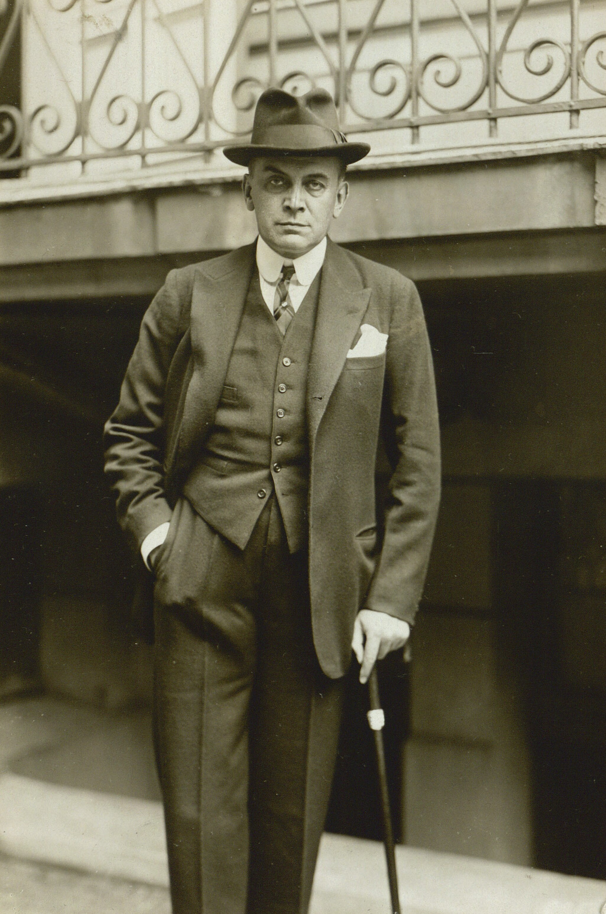 Carl Poul Oscar Moltke (1869-1935), Danish Count, Foreign Minister, and diplomat